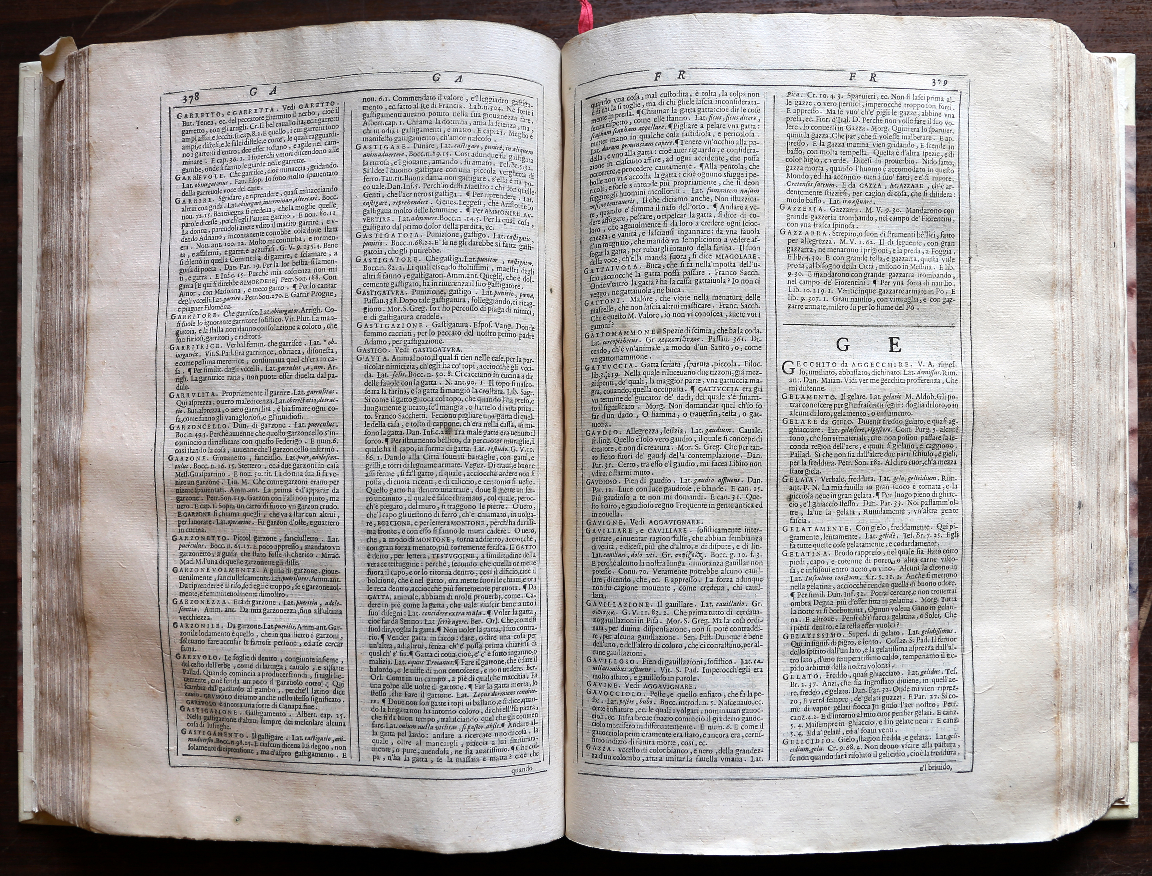 Accademia della Crusca Library: Accademia della Crusca Vocabolario degli Accademici della Crusca con tre indici delle voci, locuzioni, e prouerbi latini, e greci, posti per entro l'opera. In Venezia : appresso Giovanni Alberti, 1612. [28], 960. [104] p. ; 2° (36 cm) Prima impressione del Vocabolario. Il Vocabolario degli Accademici della Crusca fu stampato a Venezia e uscì nel 1612, suscitando immediatamente grande interesse e altrettanto accese dispute riguardo ai criteri adottati; in particolare, a molti non piacque l’aperto fiorentinismo arcaizzante proposto dal Vocabolario, che comunque rappresentò per secoli, in un’Italia politicamente e linguisticamente divisa, il più prezioso e ricco tesoro della lingua comune, il più forte legame interno alla comunità italiana, quindi lo strumento indispensabile per tutti coloro che volevano scrivere in buon italiano. Ebbe grande fortuna in tutta Europa e divenne modello di metodo lessicografico per le altre accademie europee nella redazione dei vocabolari delle rispettive lingue nazionali.